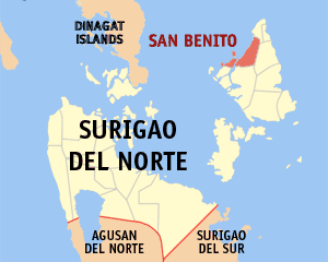 Map of the Surigao del Norte showing the location of San Benito